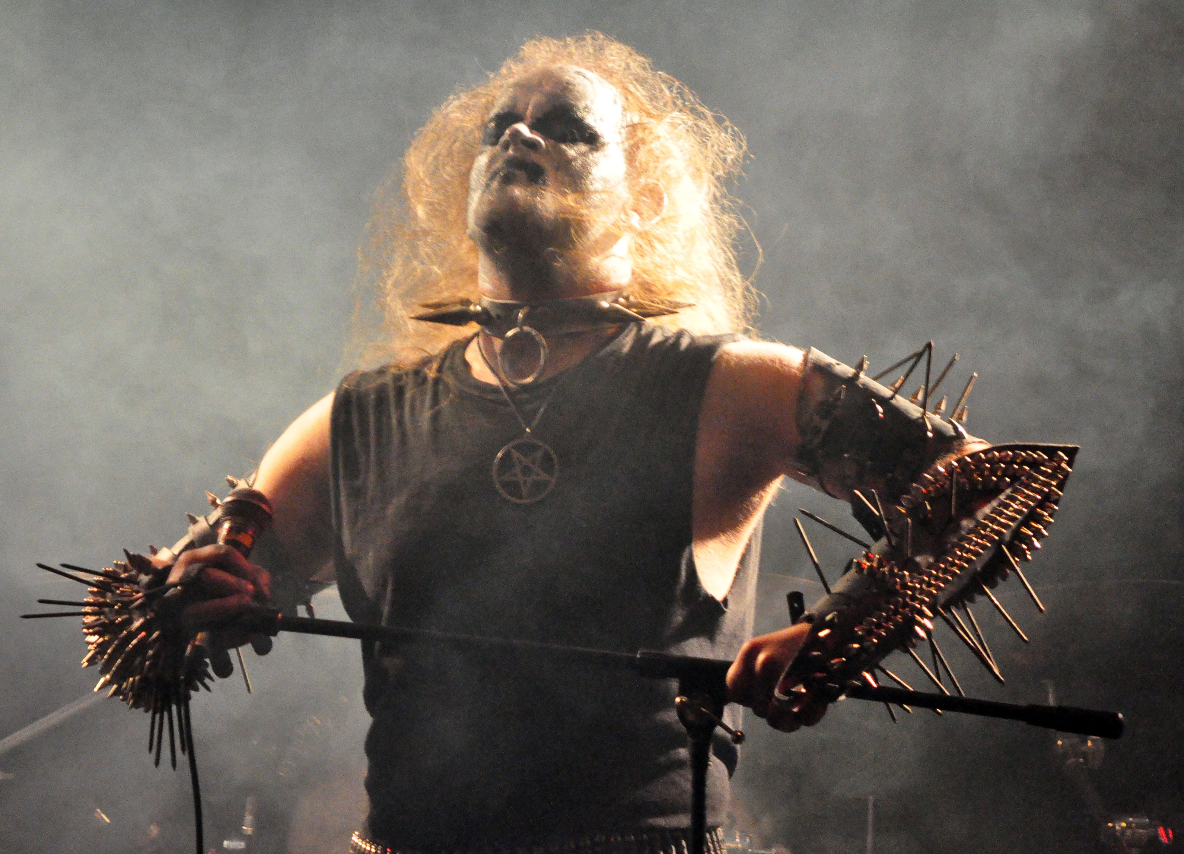 Pest 2011 in Rostock, Germany